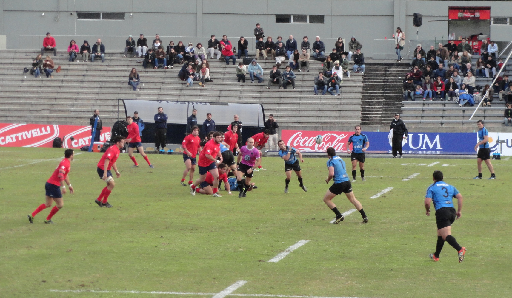 Uruguay's Teros vs Chile rugby union match at the 2016 South American Rugby Championship.